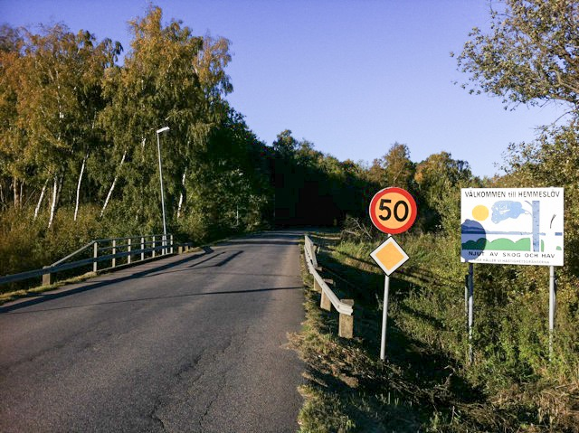 Hemmeslöv area traffic sign